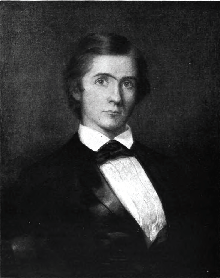 Portrait of Jay Cooke c. 1844 shortly after his wedding